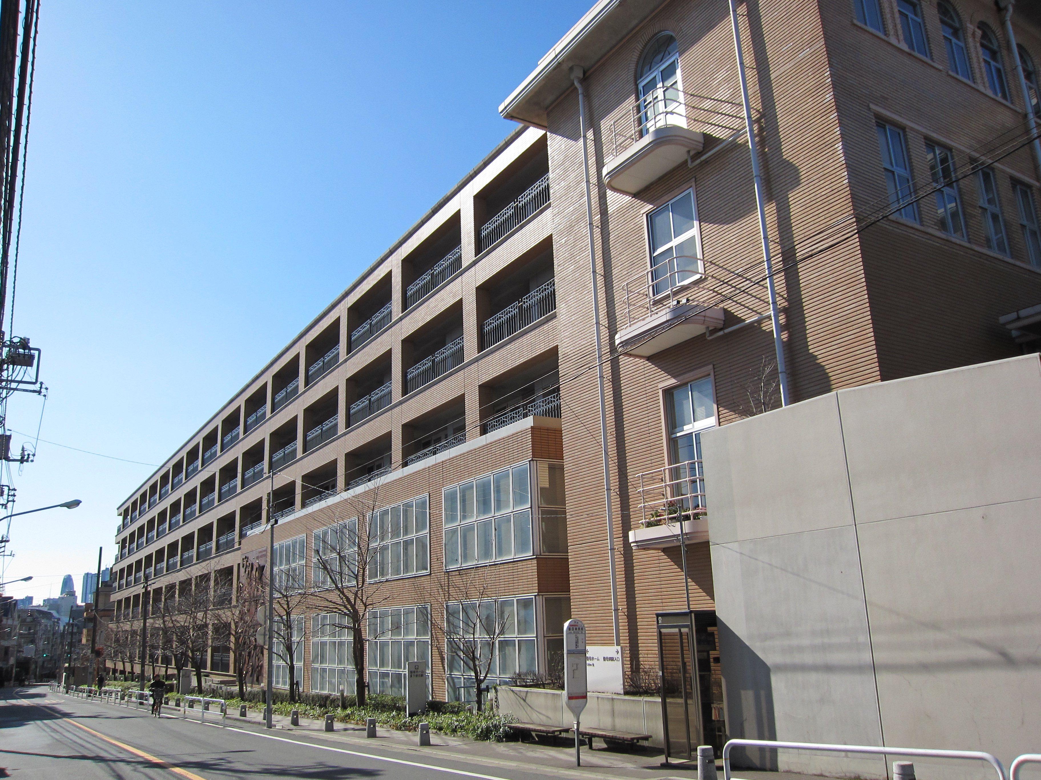 International Catholic Hospital